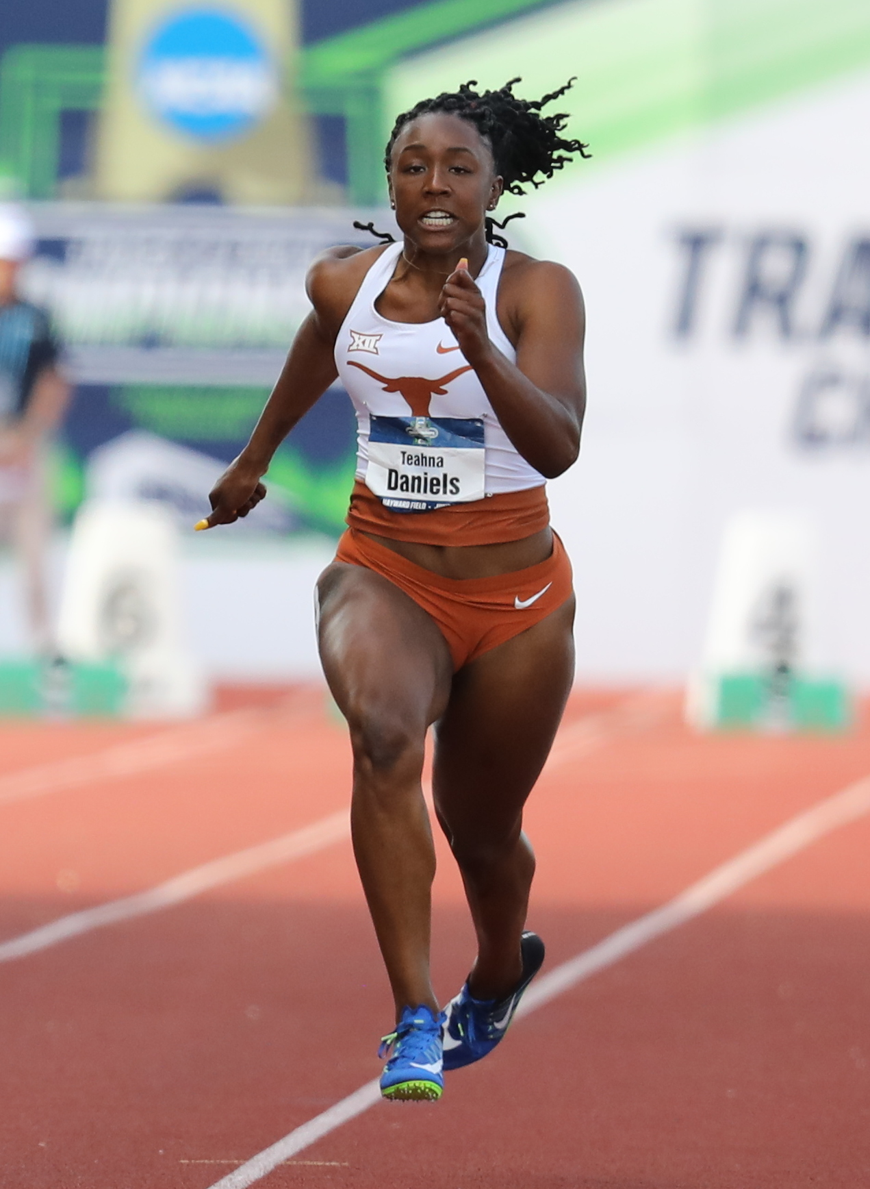 2018 NCAA Division I Outdoor Track and Field Championships